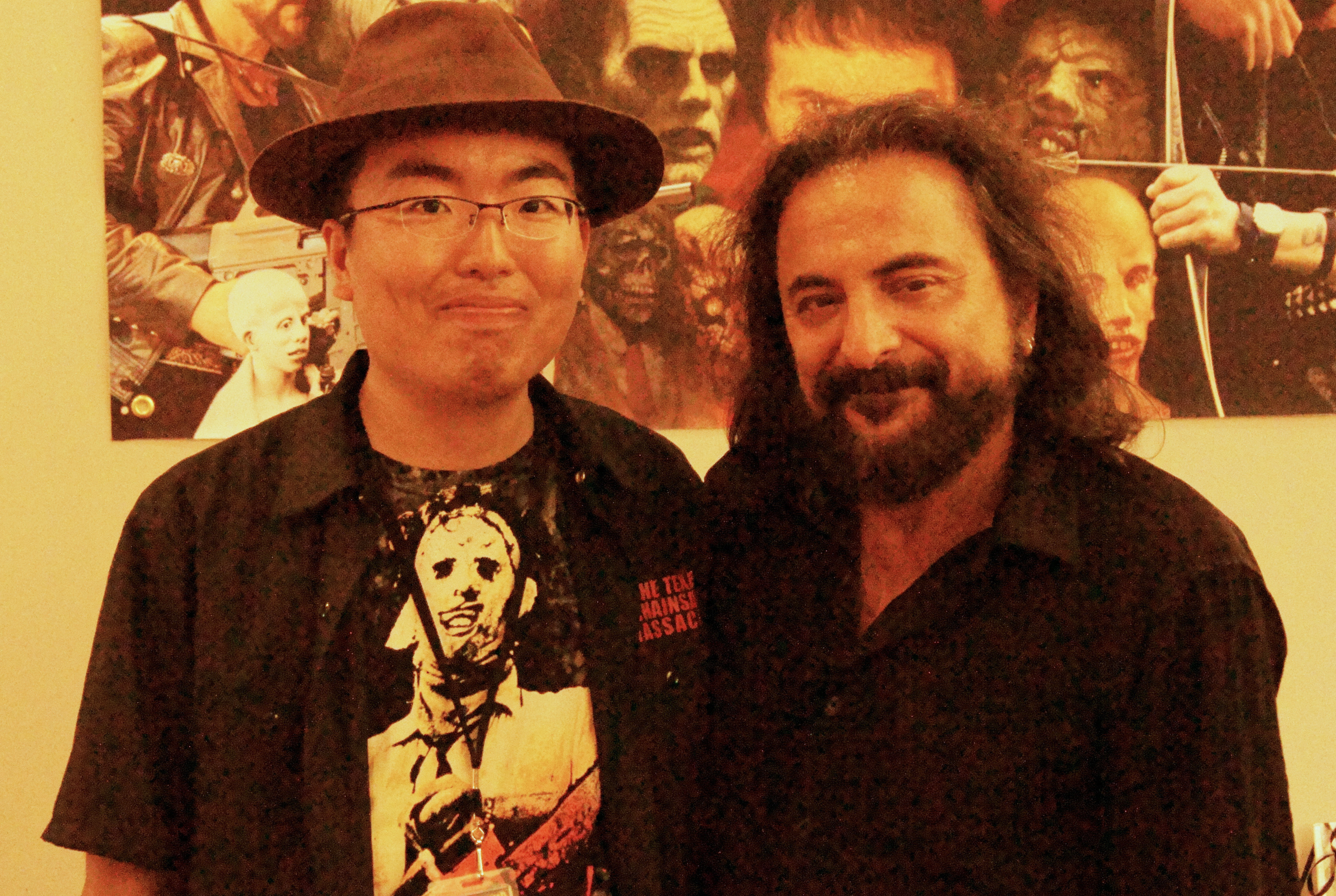 American horror film special make-up artist Tom Savini (right) and Japanese filmmaker Ryota Nakanishi (left) at the 2012 Days of the Dead, Indianapolis, USA.